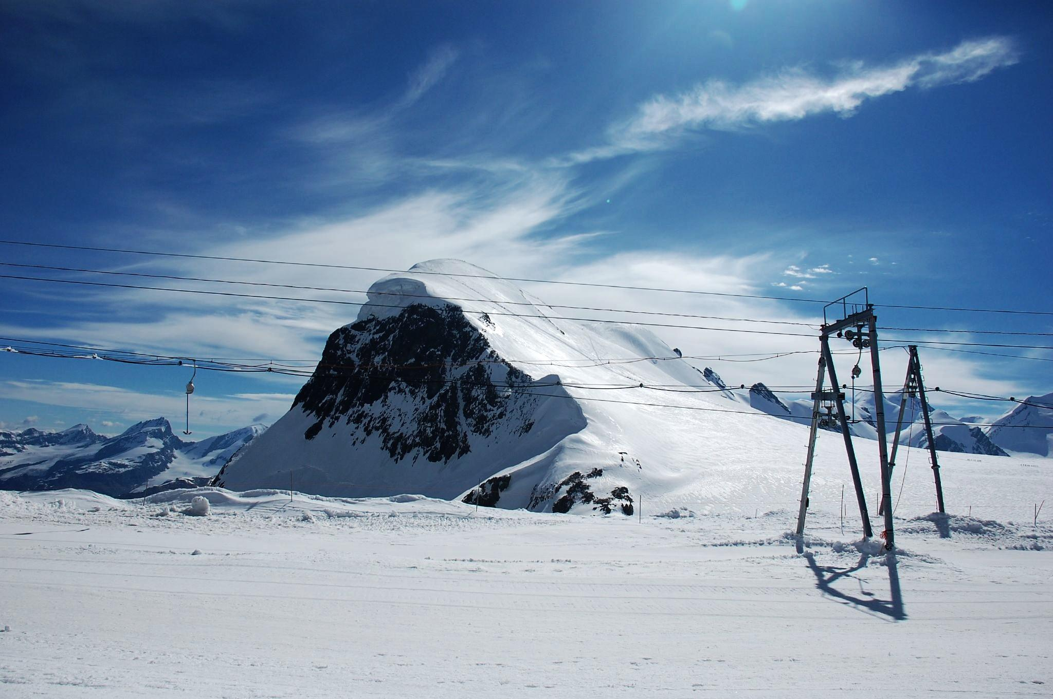 Ski area on the Breithorn plateau at nearly 4000 metres above Zermatt.